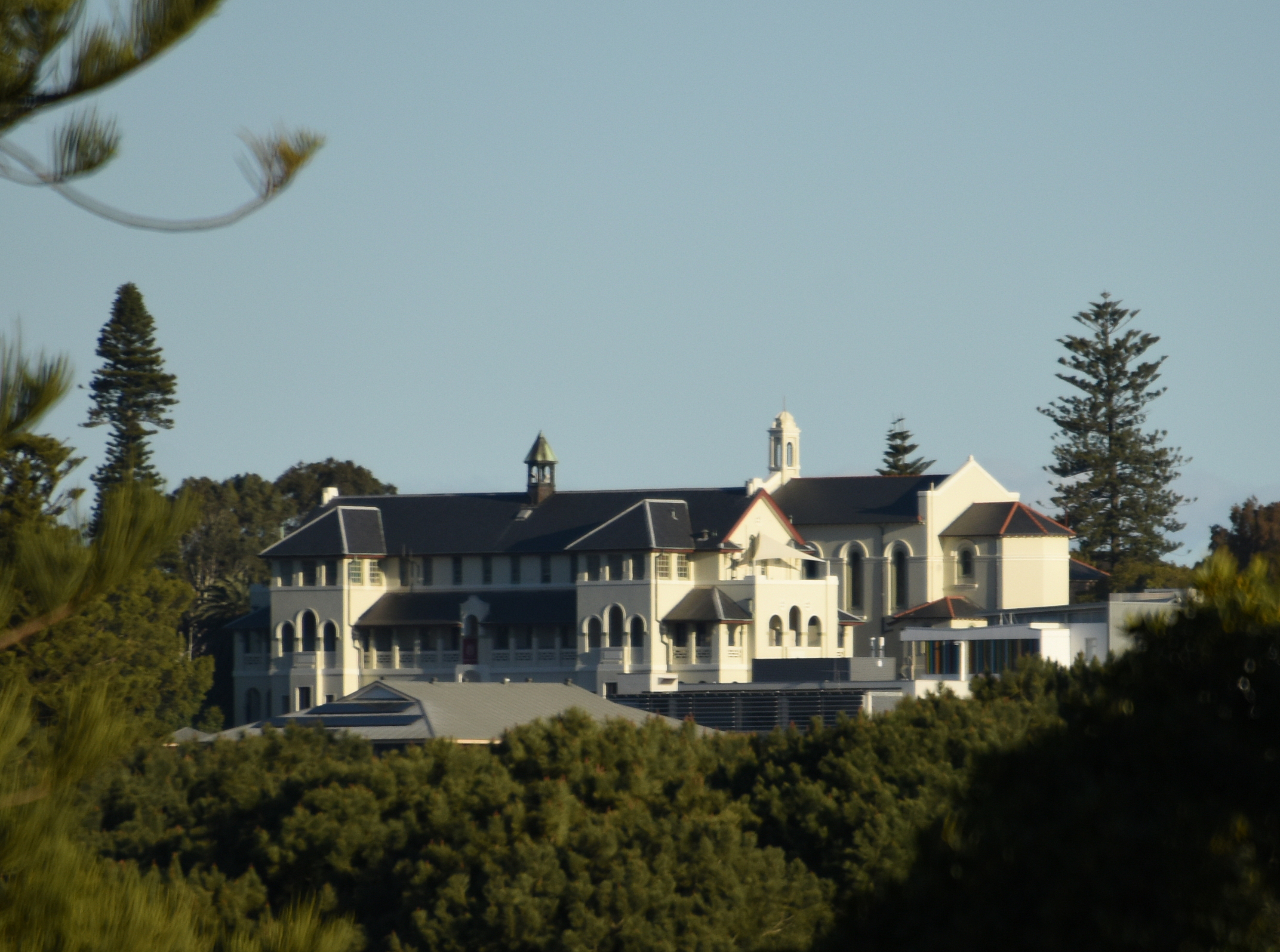 Emanuel School, Randwick, Sydney, seen from Centennial Park (former Catholic Novitiate)